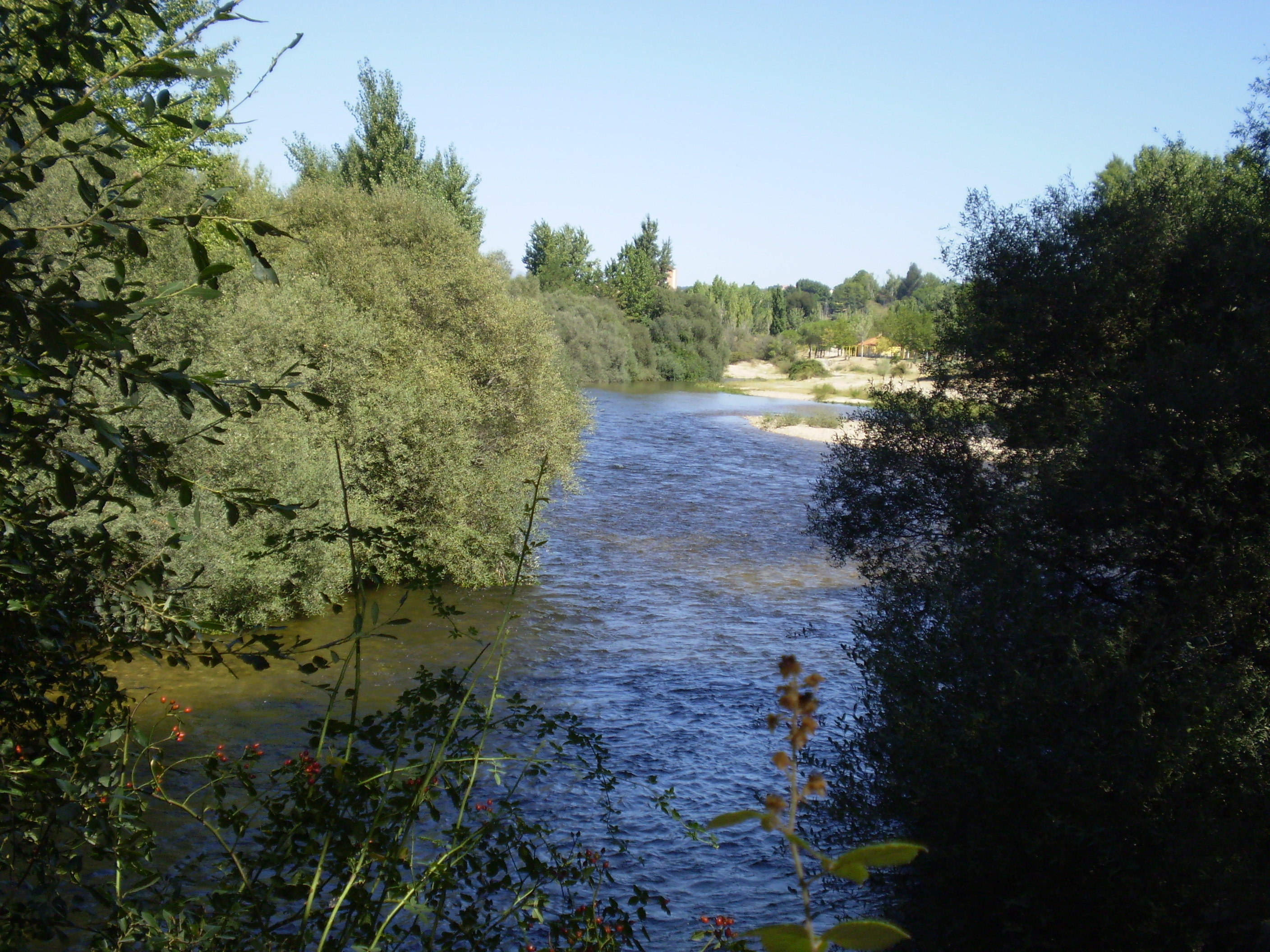 Alberche River. Near to Aldea del Fresno. Community of Madrid